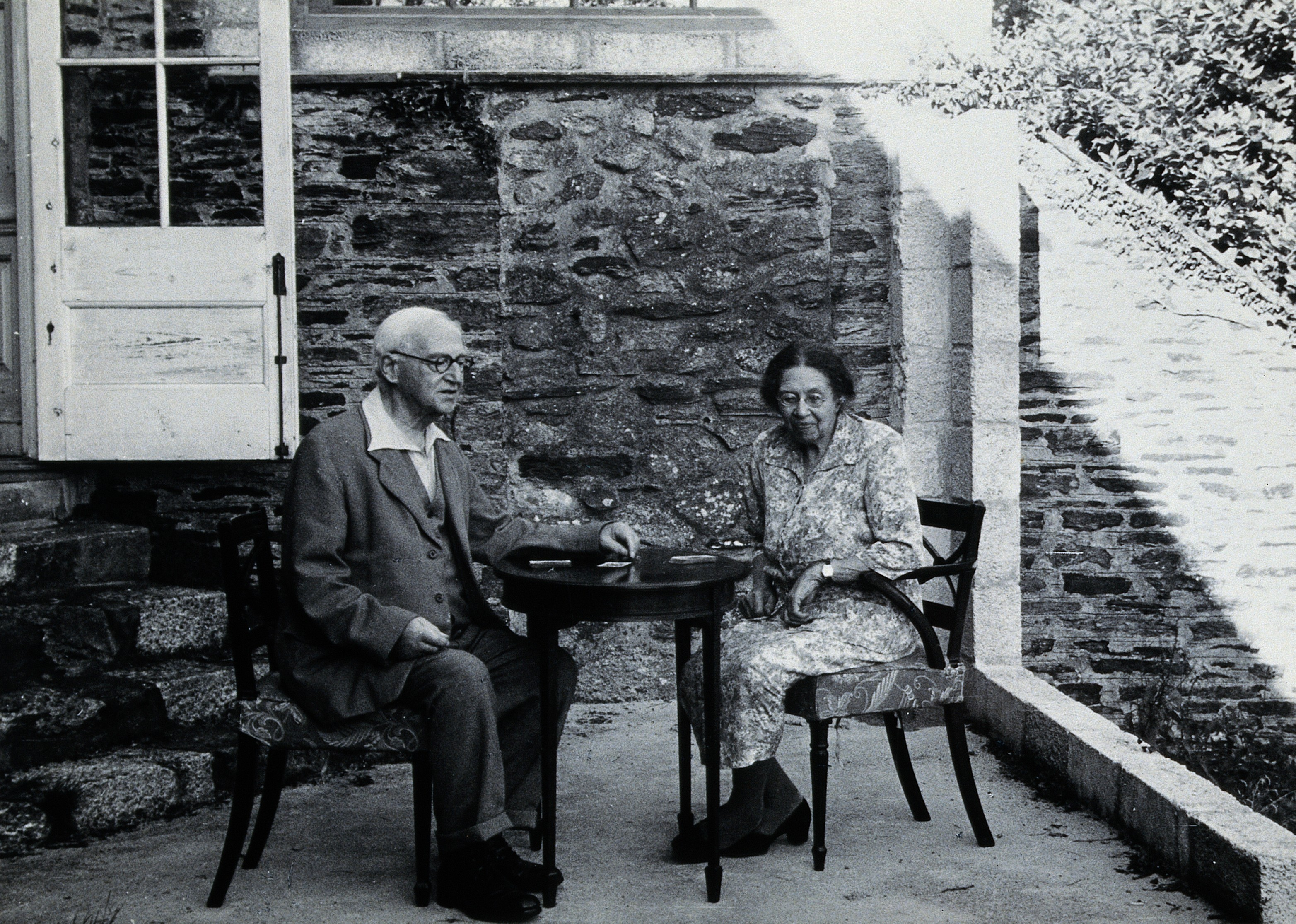 Charles Joseph Singer and Dorothea Waley Singer. Photograph. Iconographic Collections Keywords: portrait photographs